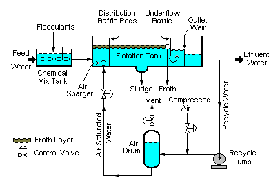 I am the author and drew this image myself using Microsoft's Paint program. This image depicts a dissolved air flotation (DAF) unit used in the treatment of industrial wastewaters. - mbeychok 04:33, 30 July 2007 (UTC)